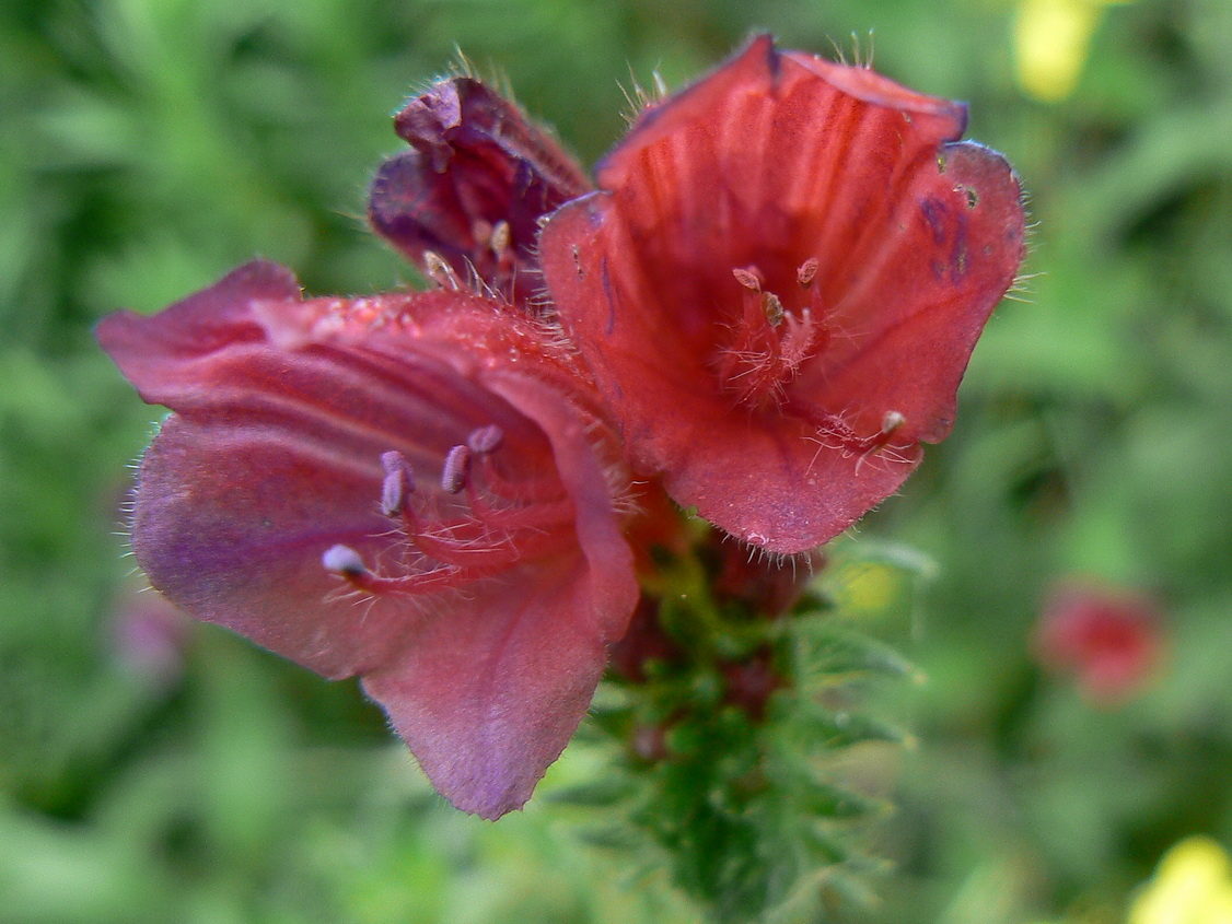 Echium creticum, Massif des Maures (France). Detail of flower.